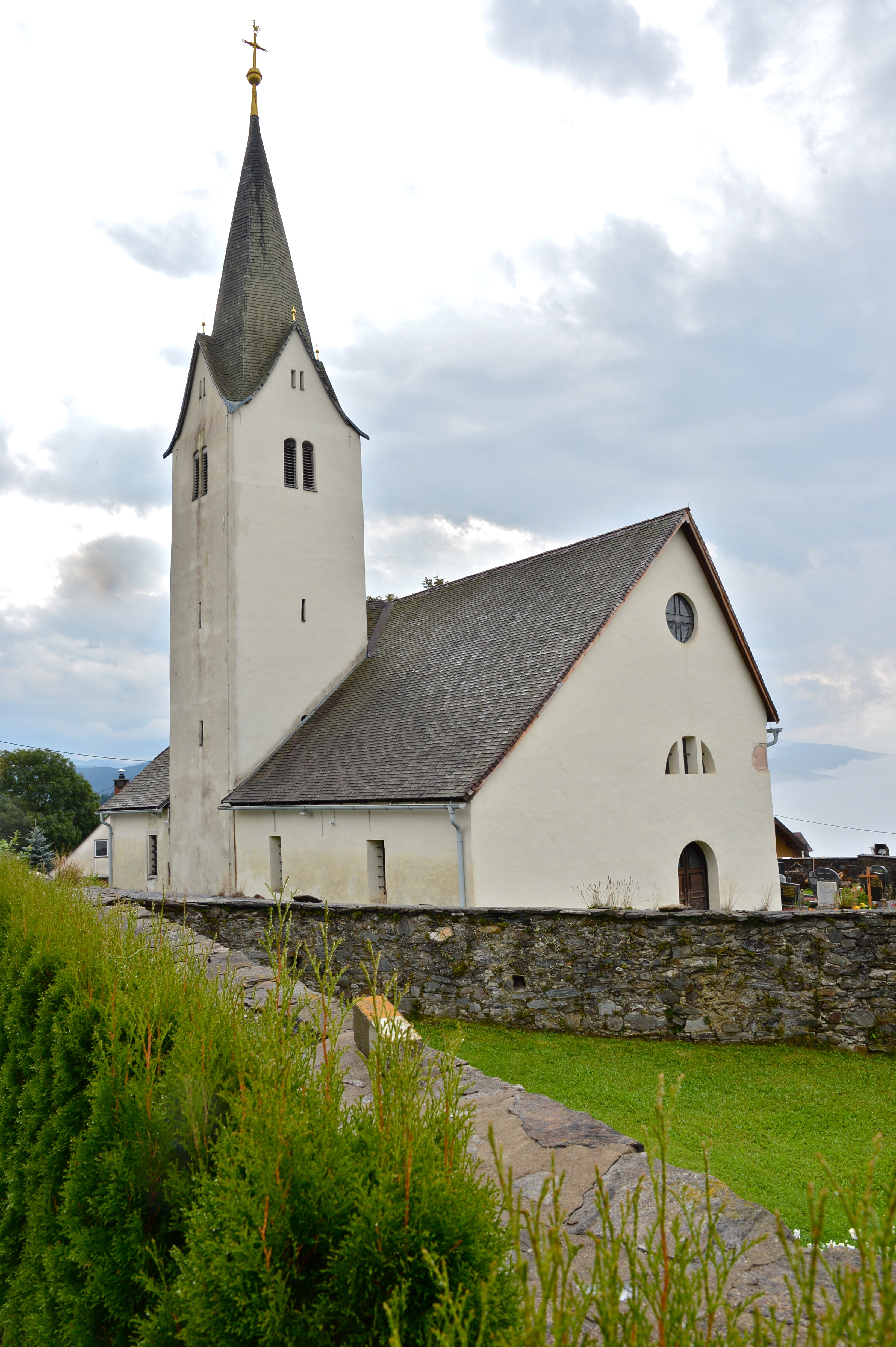 North west view at the parish church Saint Martin at Prebl, municipality Wolfsberg, district Wolfsberg, Carinthia / Austria / EU